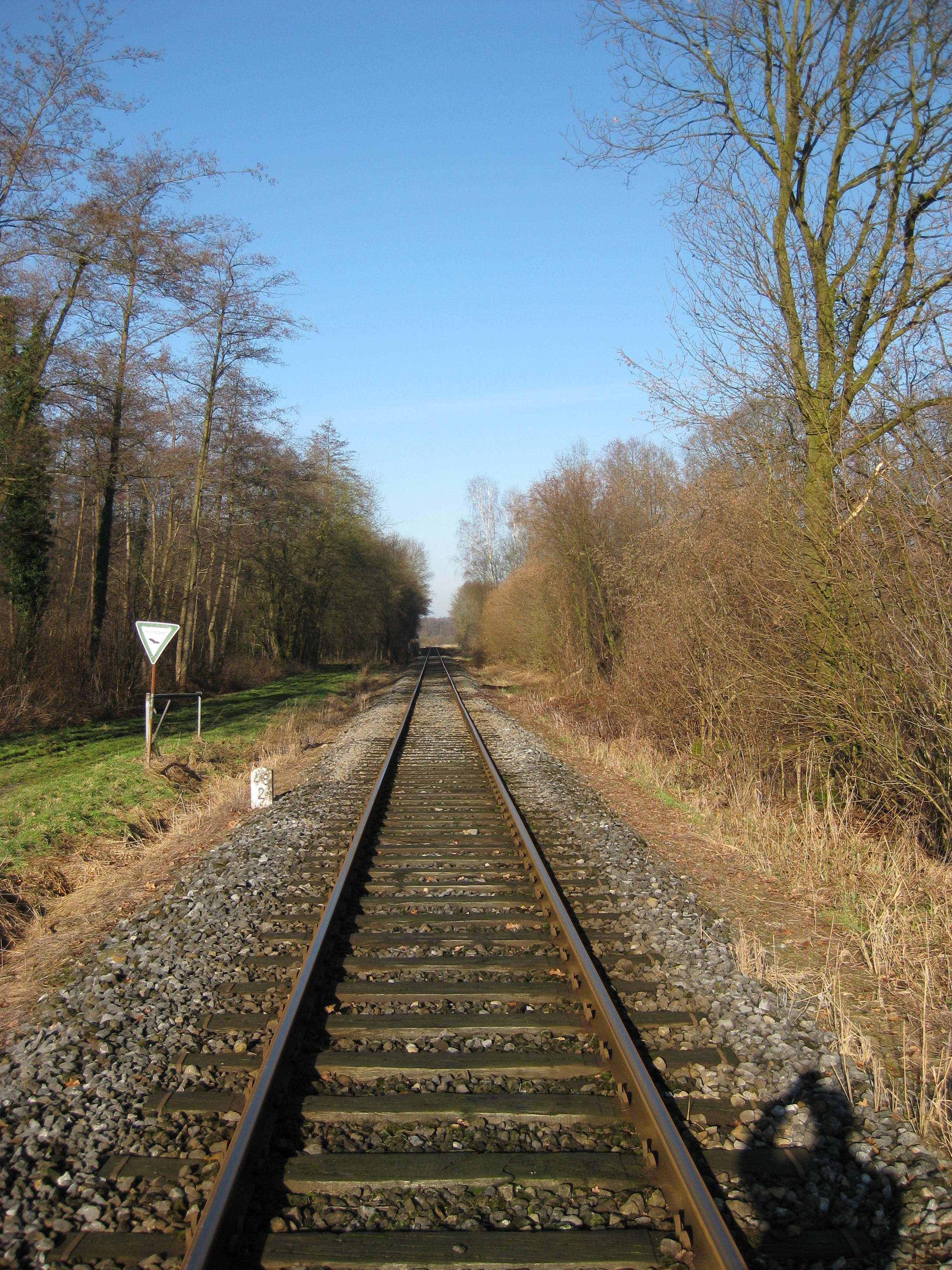 Nature reserve Versmolder Bruch near Versmold, tracks of the Teutoburger Wald-Eisenbahn